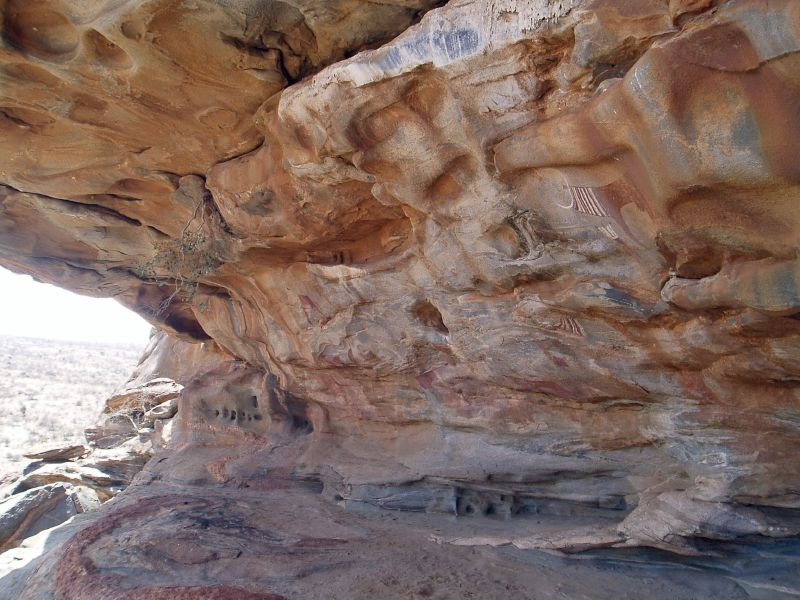 Alcove in Laas Geel, near Hargeysa, Somaliland/Somalia, where Neolithic cave paintings have been found. Original description on Flickr: "The local nomads used this alcove as a shelter when it rained and never paid much attention to the paintings. Recently, a troop of monkeys were based here, but have since been chased away. The site is now guarded by the local villagers who view these paintings as both national treasures and tourist attractions."